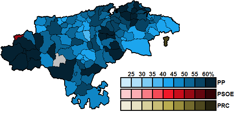 Most-voted party in Cantabria municipalities, showing vote share obtained, in the Spanish general election, 2011.